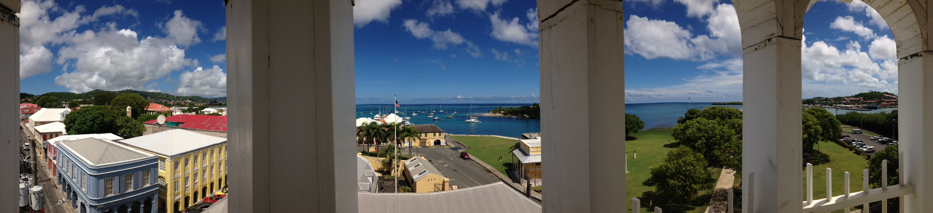 Panorama of Christiansted, St. Croix, U.S. Virgin Islands, taken from the Steeple Building, a former church, now part of Christiansted National Historic Site.